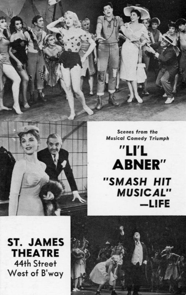 Postcard promoting the Broadway show, Li'l Abner.